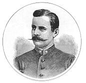 Joaquín_Castillo_Duany